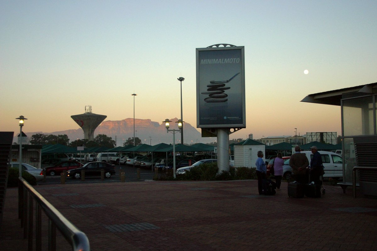 Cape Town International Airport at about 6:00am